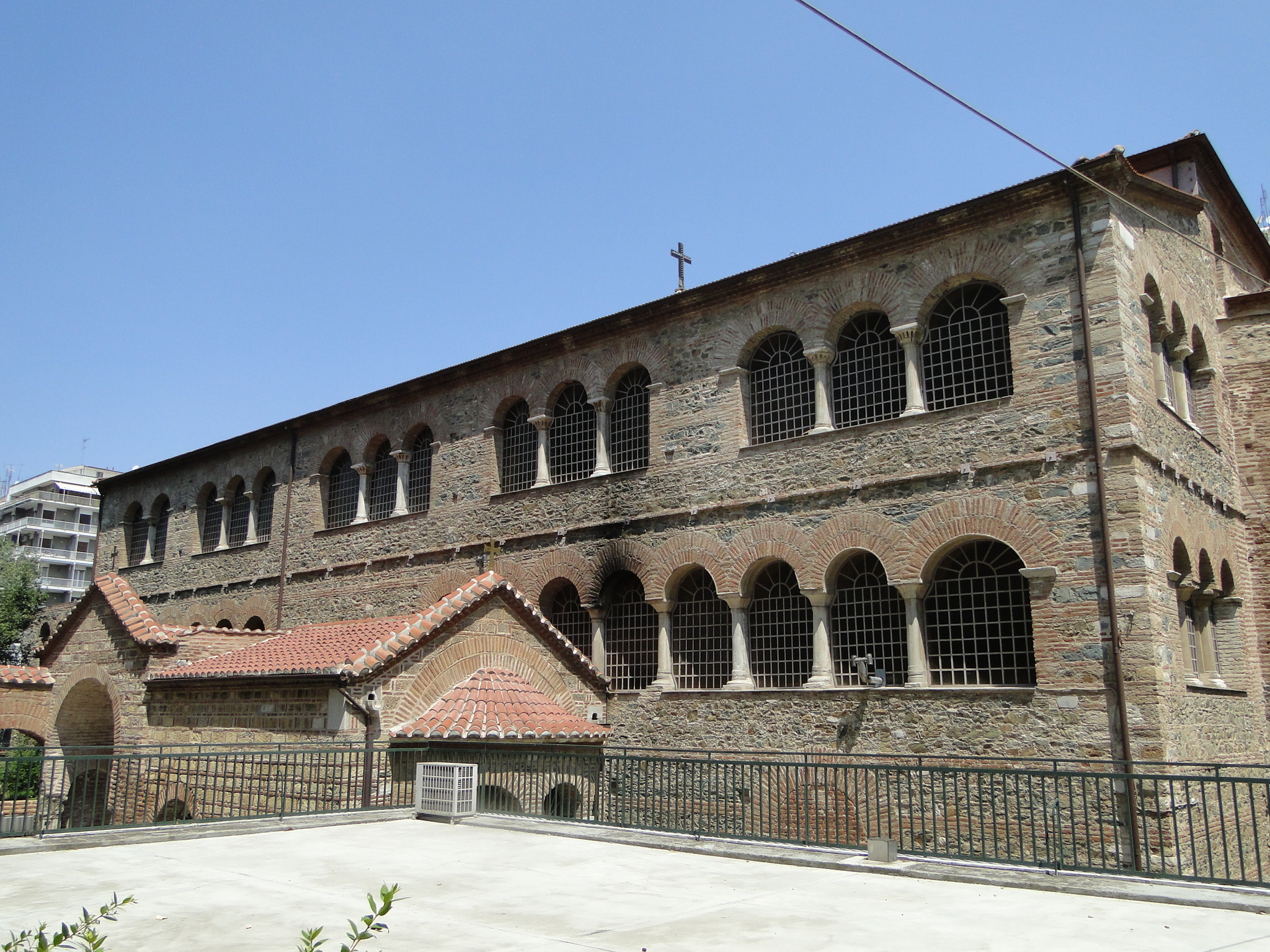 The paleochristian Church of the Acheiropoietos in Thessalonica. UNESCO World Heritage Site.